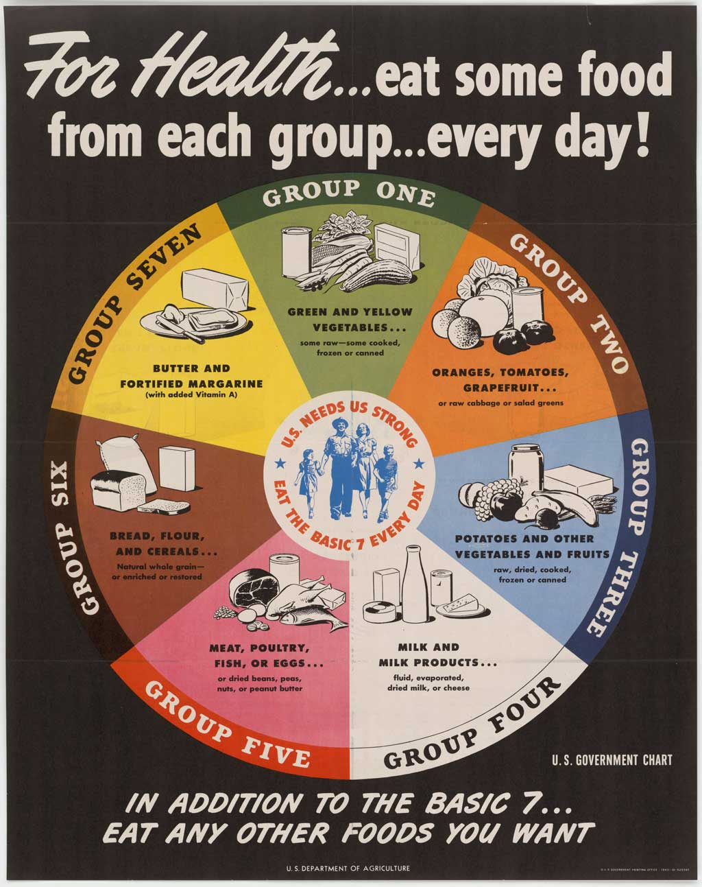 1943 USDA nutrition chart showing the "Basic 7" food groups.